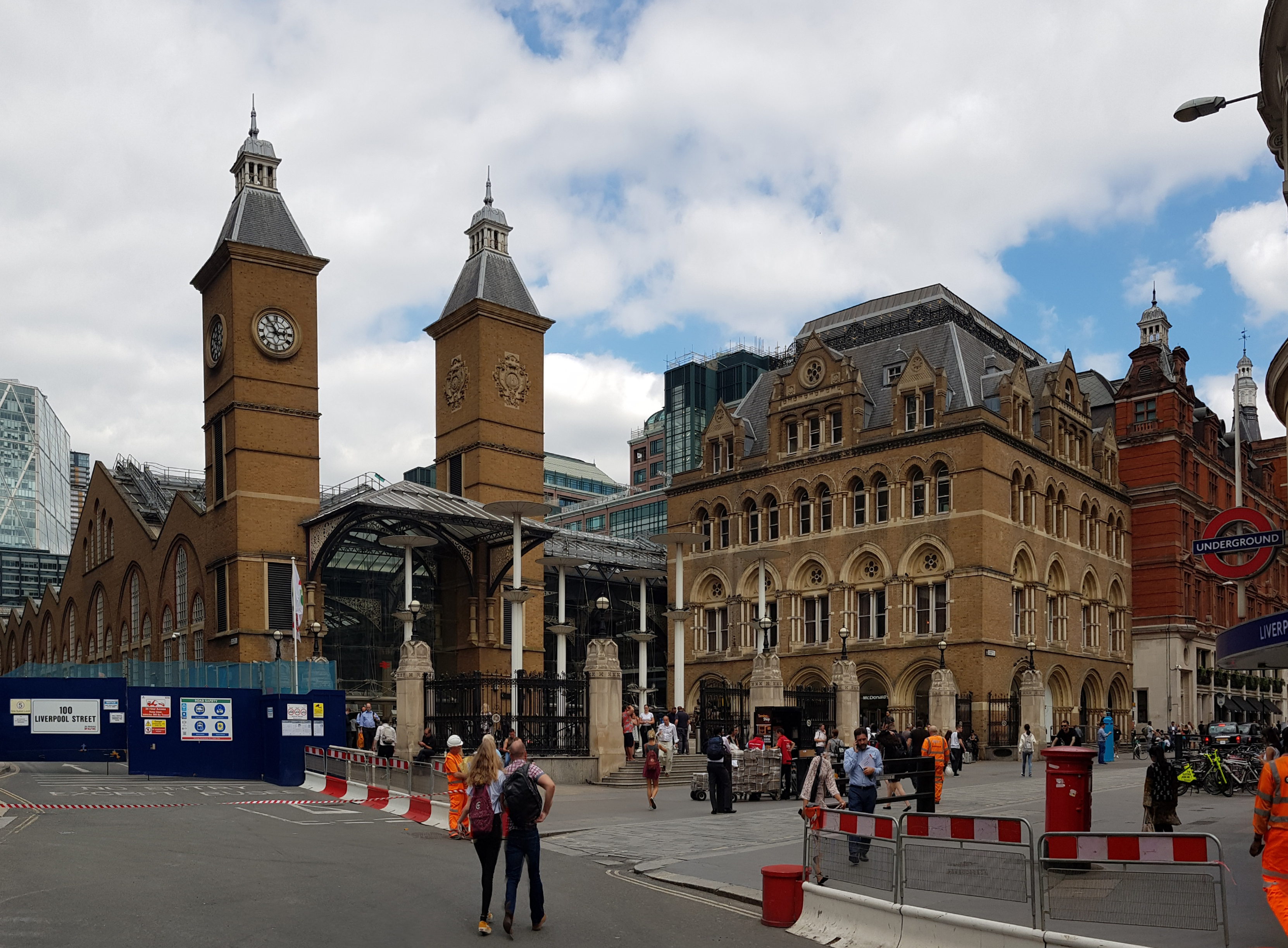 The exterior of Liverpool Street station in London in 2019